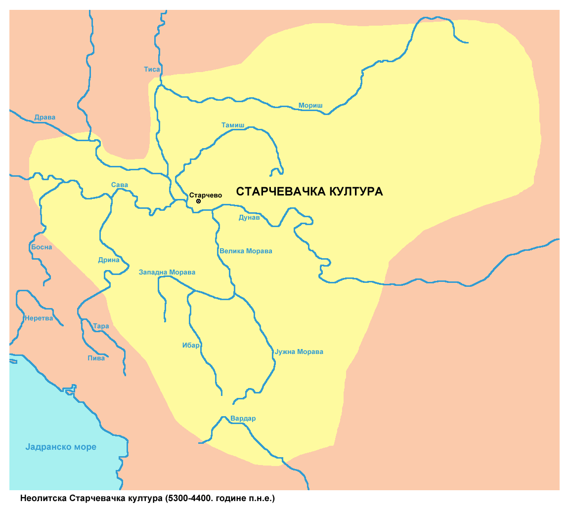 Neolithic Starčevo culture (5300-4400 BC).